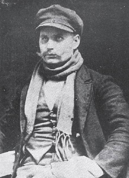 Portrait of IMARO member Todor Dimkov